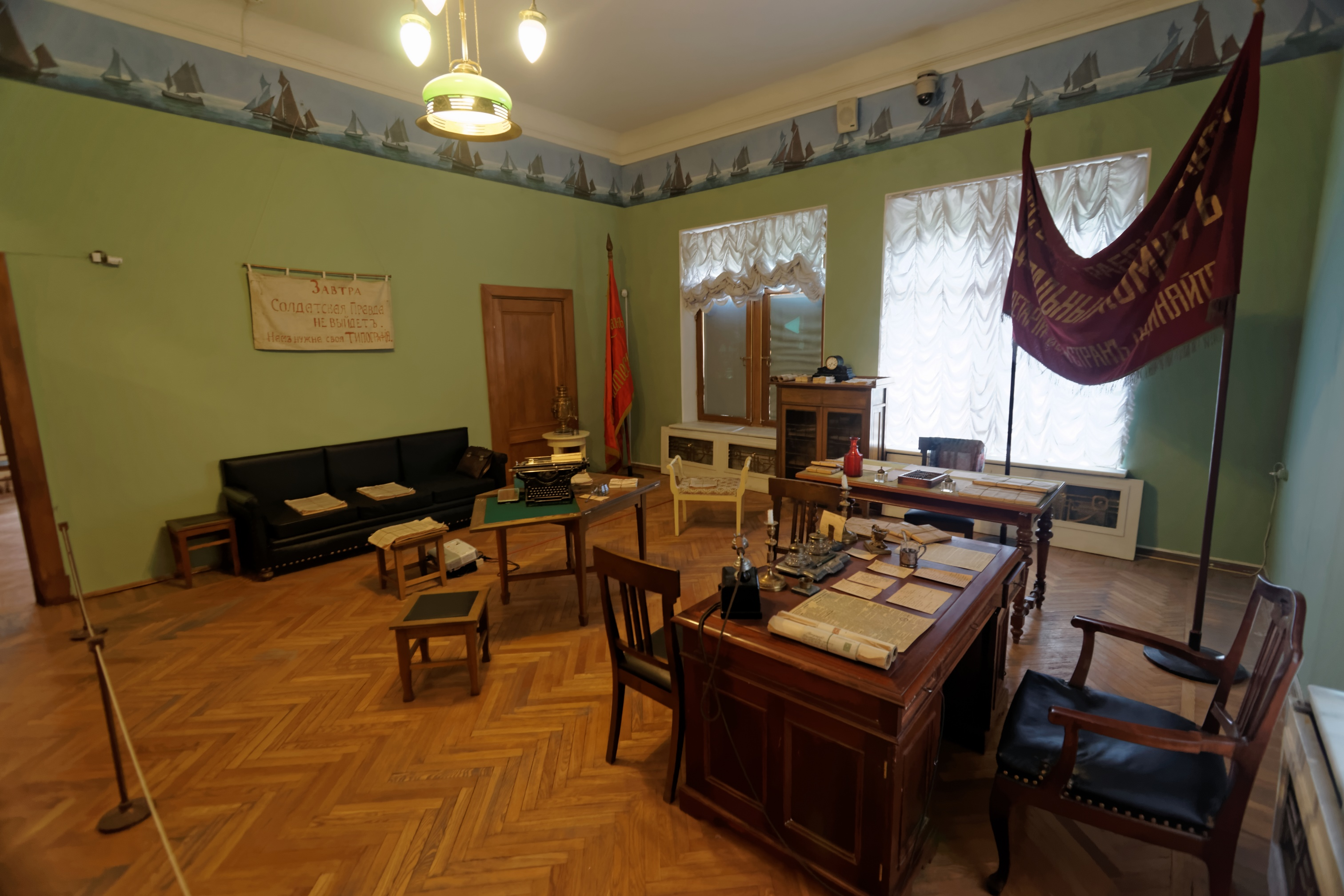 Санкт-Петербург / St Petersburg - Музей политической истории России / State Museum of Political History of Russia - Особня́к Кшеси́нской / Kshesinskaia Mansion 1906 by Alexander von Hohen (Алекса́ндр Ива́нович фон Го́ген) - Northern Art Nouveau